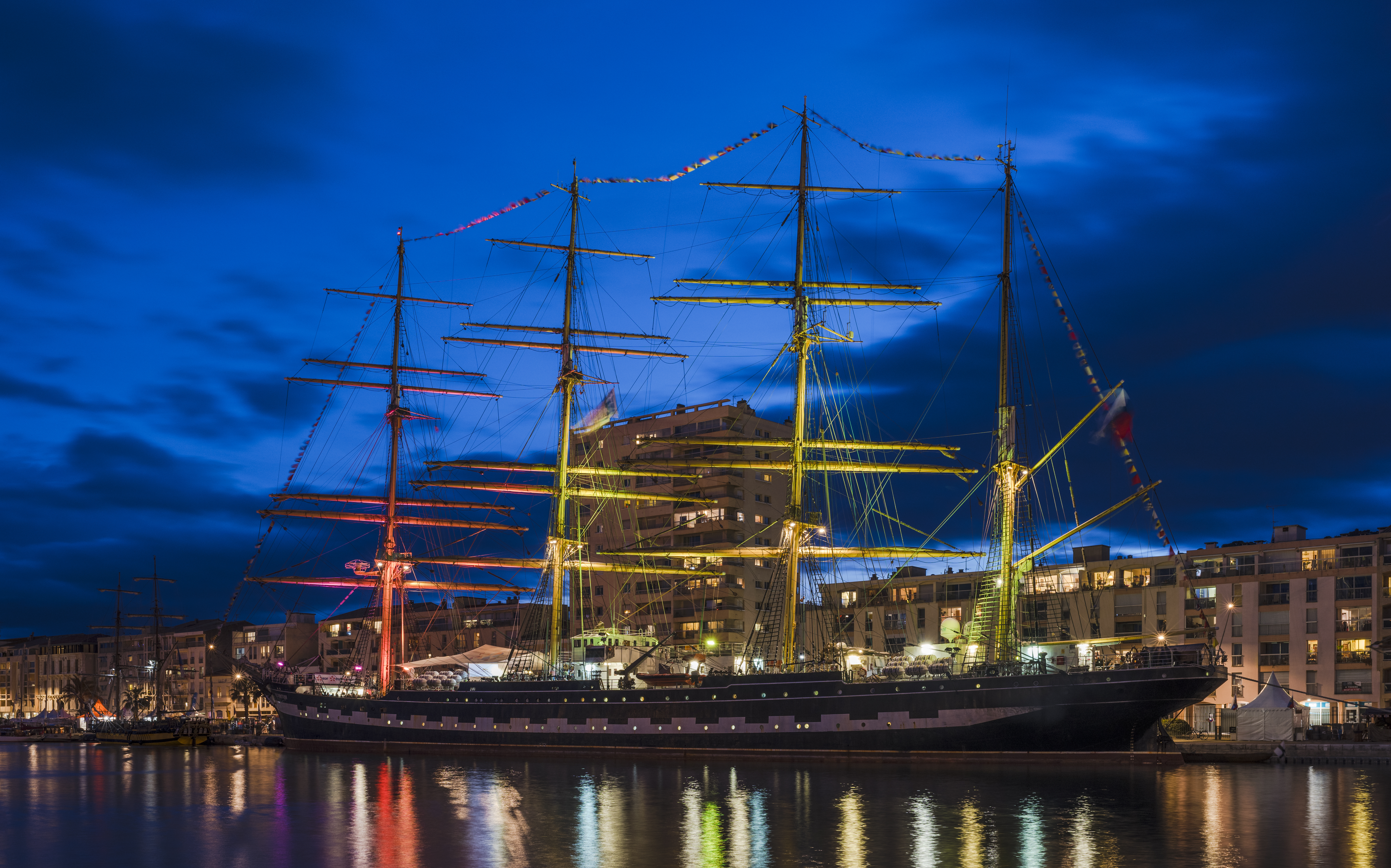 Kruzenshtern (ship, 1926) - moored at the Quai d'Alger (embankment), during the event Escale à Sète 2018 - Sète, Hérault, France